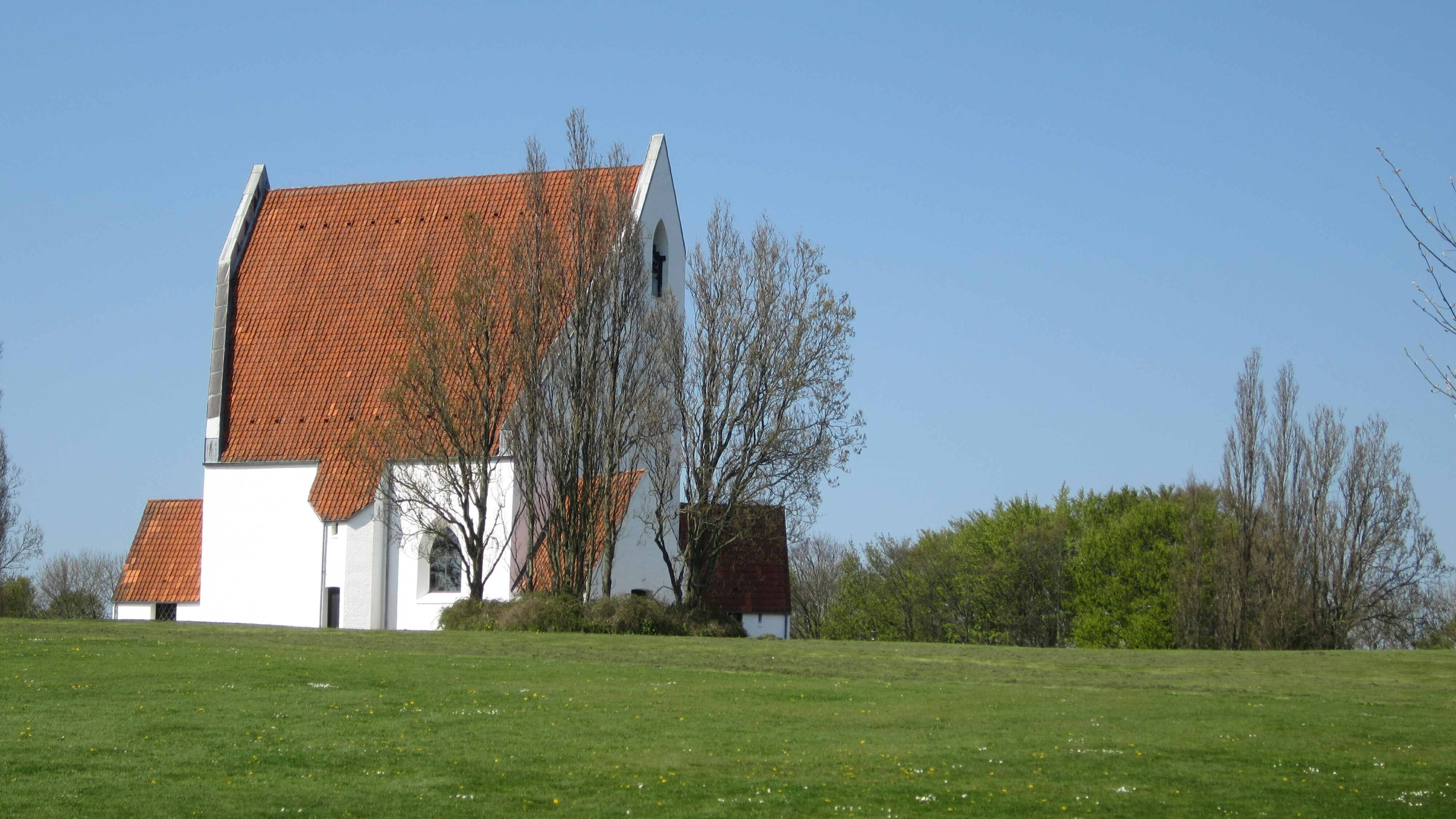 The chuch "Brejning Kirke" in the small town "Brejning". The church is located in Vejle Kommune, South-Central Jutland in southern Denmark.